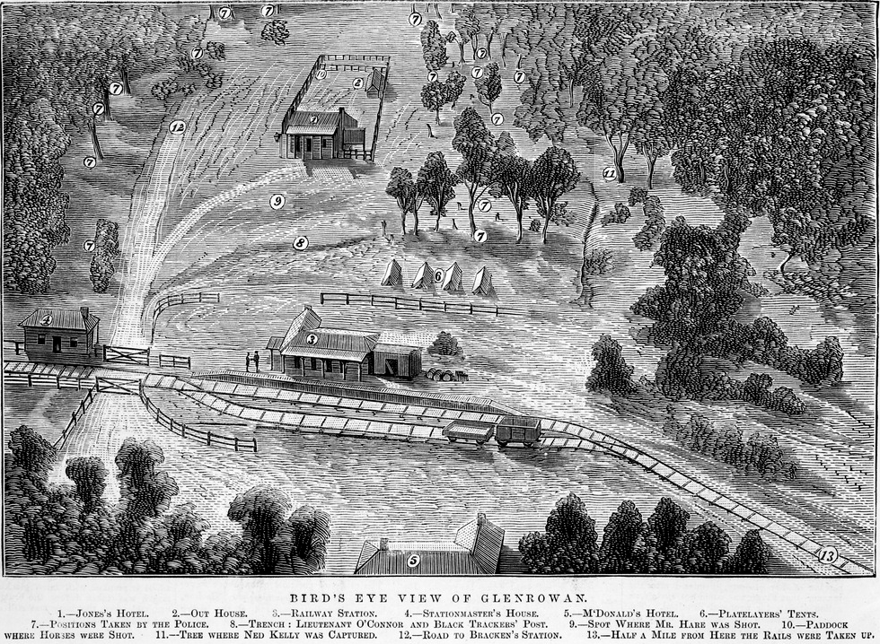 Bird's eye view of Glenrowan, wood engraving, printed in The Illustrated Australian News.